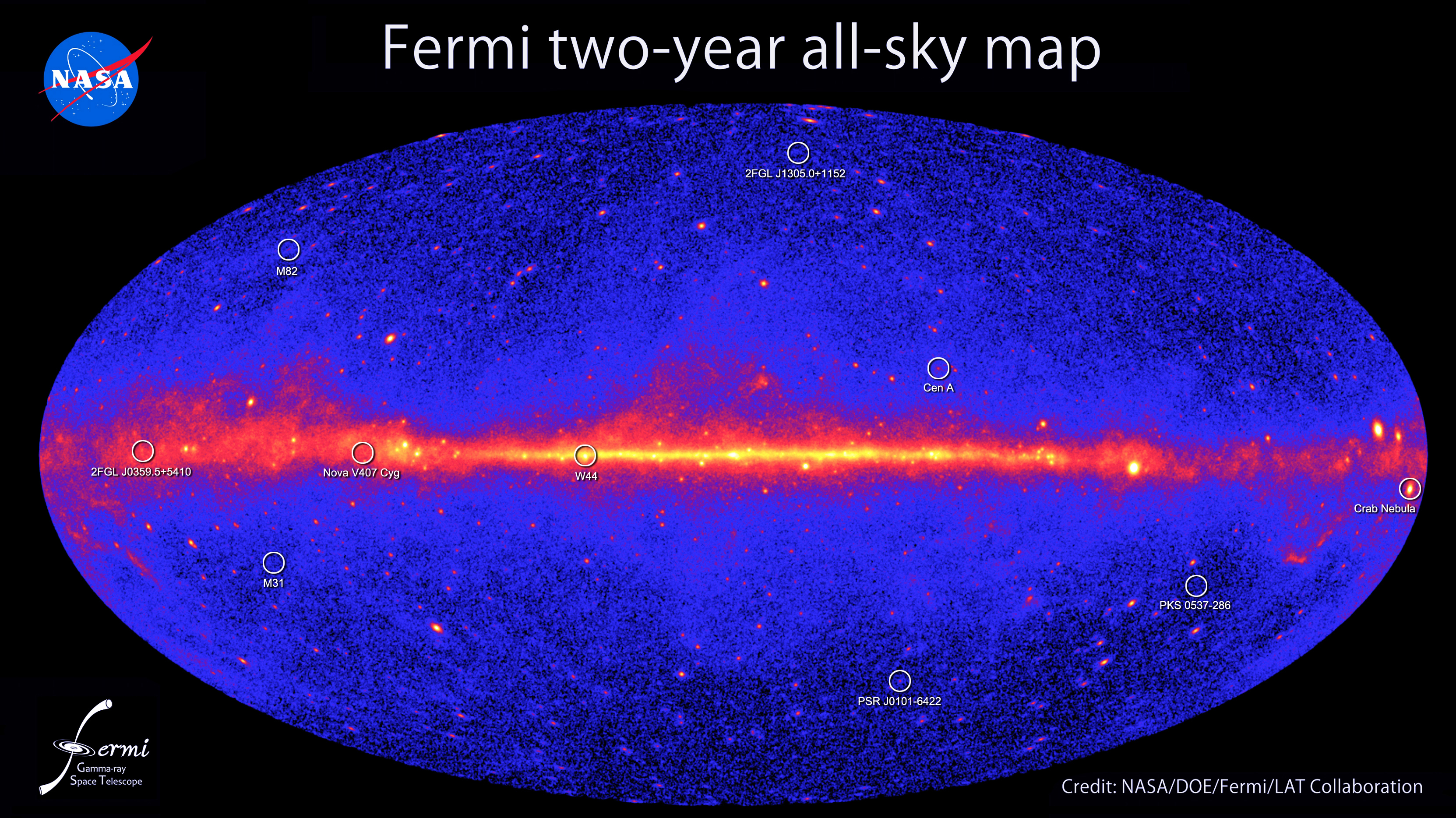 09/09/2011 All-sky image, constructed from two years of observations by NASA's Fermi Gamma-ray Space Telescope, shows how the sky appears at energies greater than 1 billion electron volts (1 GeV). Brighter colors indicate brighter gamma-ray sources. For comparison, the energy of visible light is between 2 and 3 electron volts. A diffuse glow fills the sky and is brightest along the plane of our galaxy (middle). Discrete gamma-ray sources include pulsars and supernova remnants within our galaxy as well as distant galaxies powered by supermassive black holes. (Credit: NASA/DOE/Fermi LAT Collaboration)